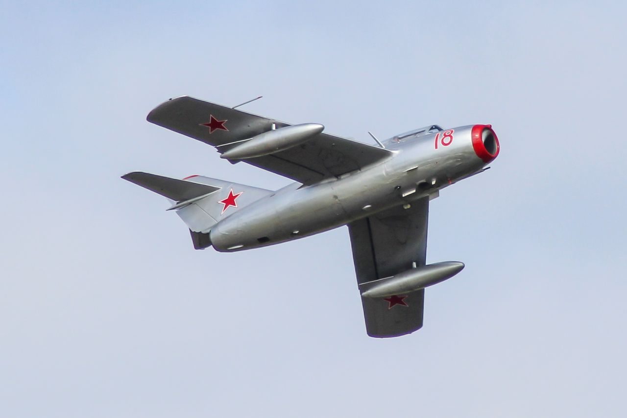 Aircraft taking part in the Scottish International Airshow 2017 seen at Prestwick Airport